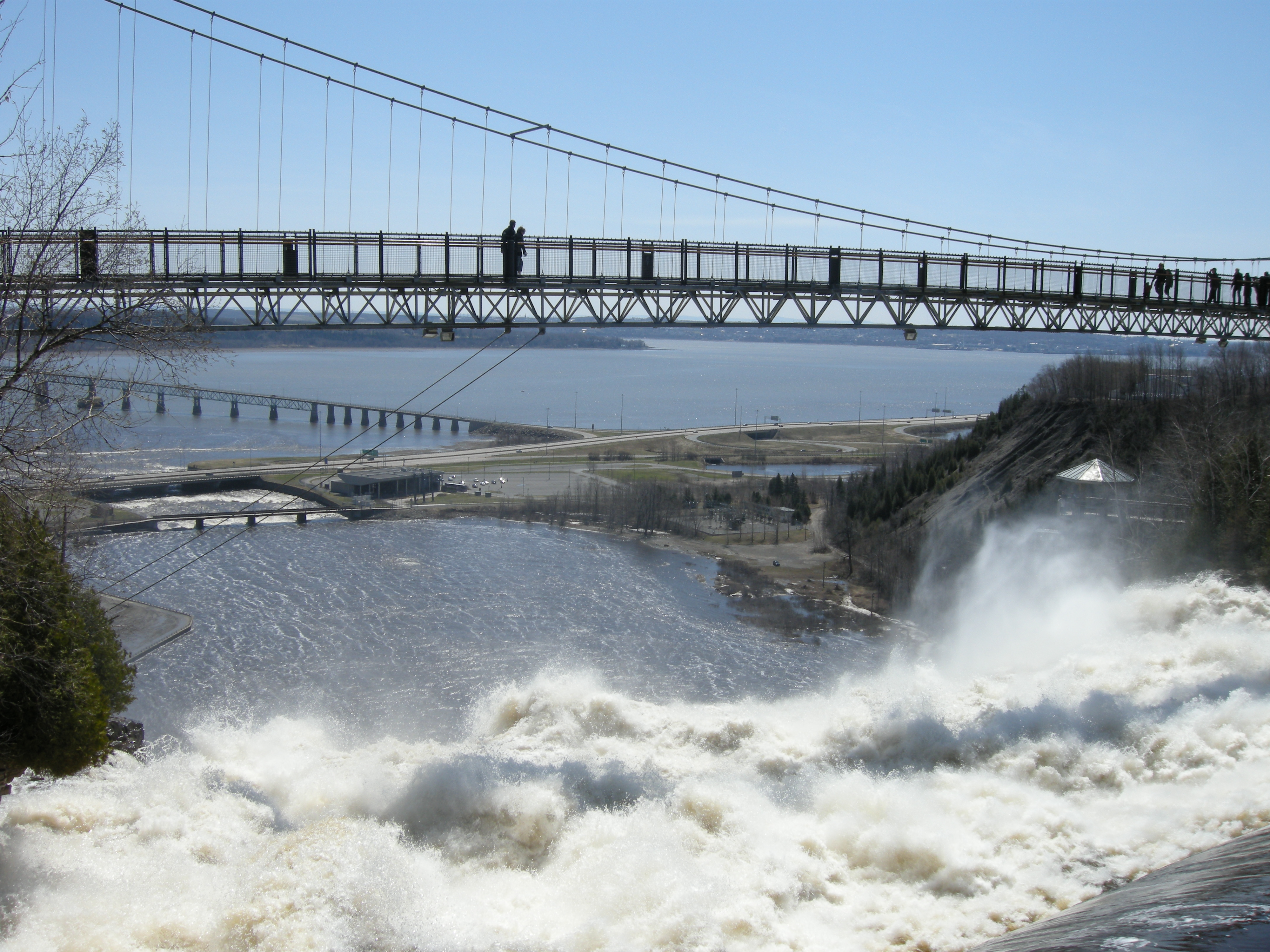 A view out over the top of the falls. In the foreground is the footbridge spanning the falls. In the background is the St Lawrence river with the upstream tip of the Isle d'Orleans just visible. The end of the road bridge connecting this island to the mainland can also be seen.